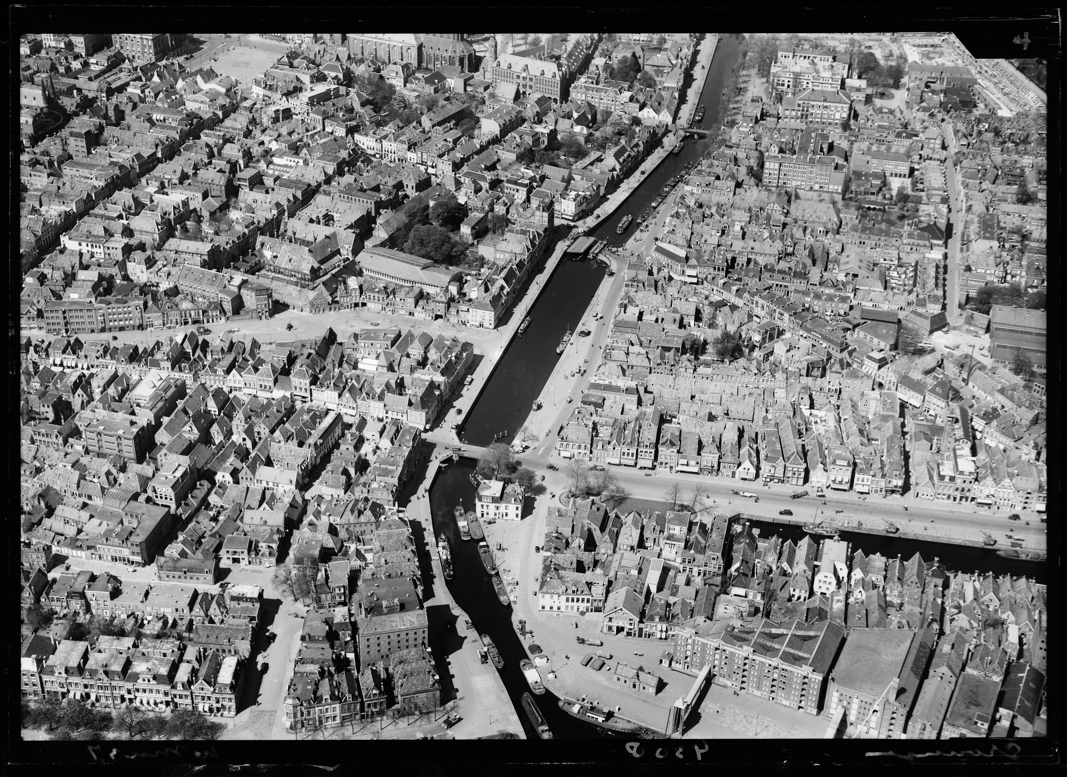 Aerial photograph of Groningen, The Netherlands